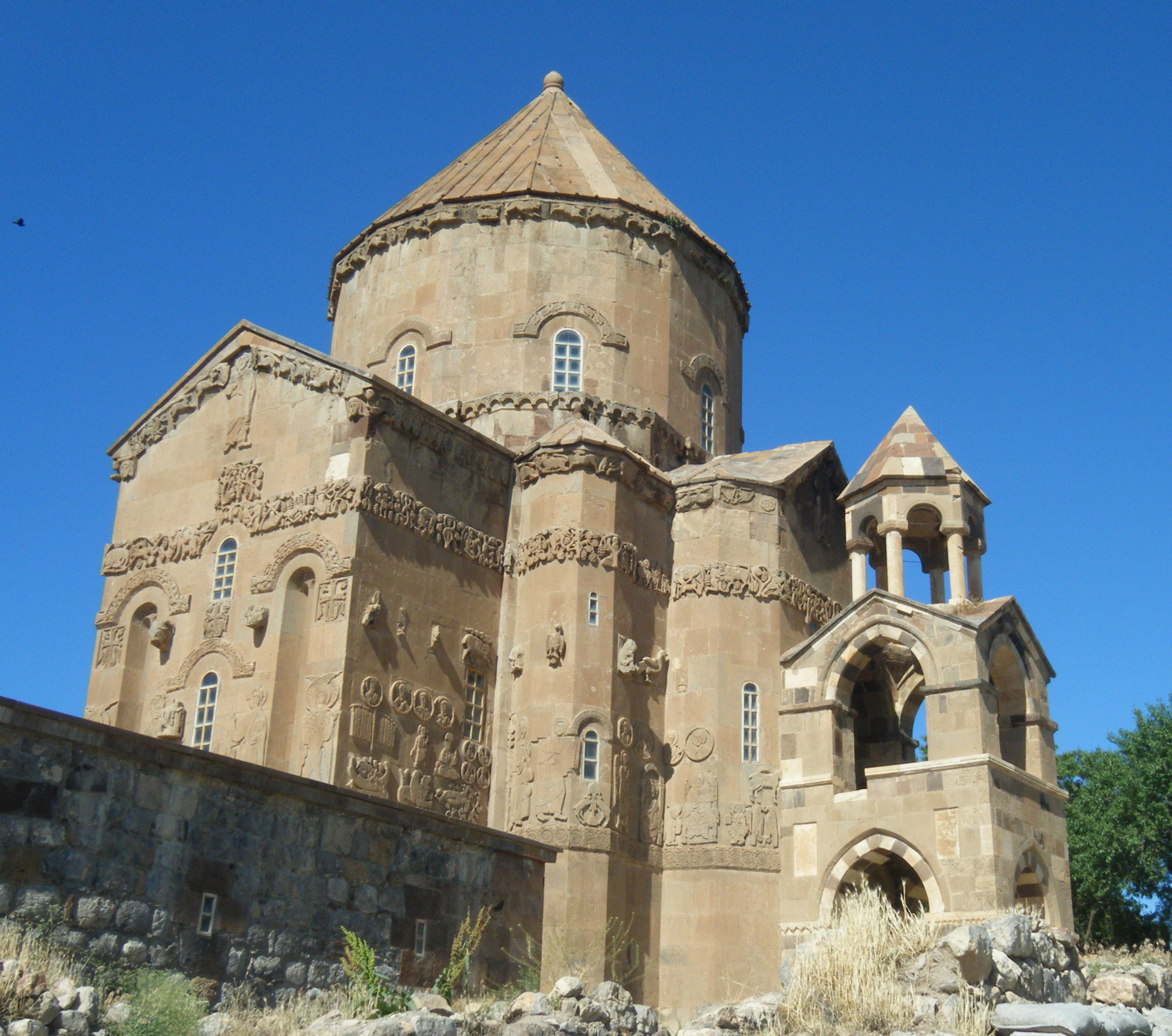 The Church of the Holy Cross (Surb Khach) on Akhtamar Island, in Turkey, was a cathedral of the Armenian Apostolic Church, built as a palace church for the kings of Vaspurakan and later serving as the seat of the Armenian Catholicosate of Aght'amar.